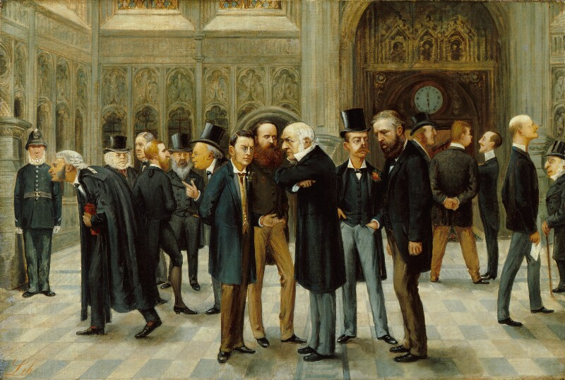 The lobby of the House of Commons. Oil on canvas, published in Vanity Fair Christmas Supplement 1886